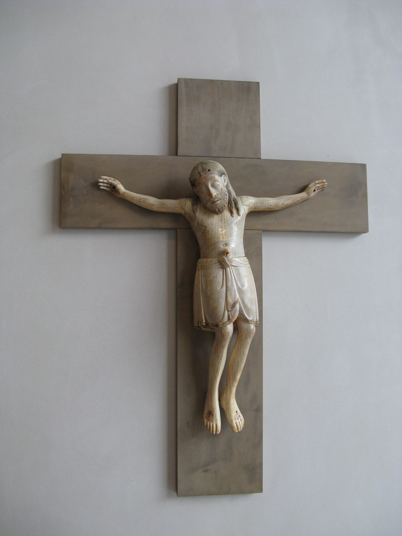 Crucified, ivory, 12th century, from the Rhineland, Kolumba Museum, Cologne